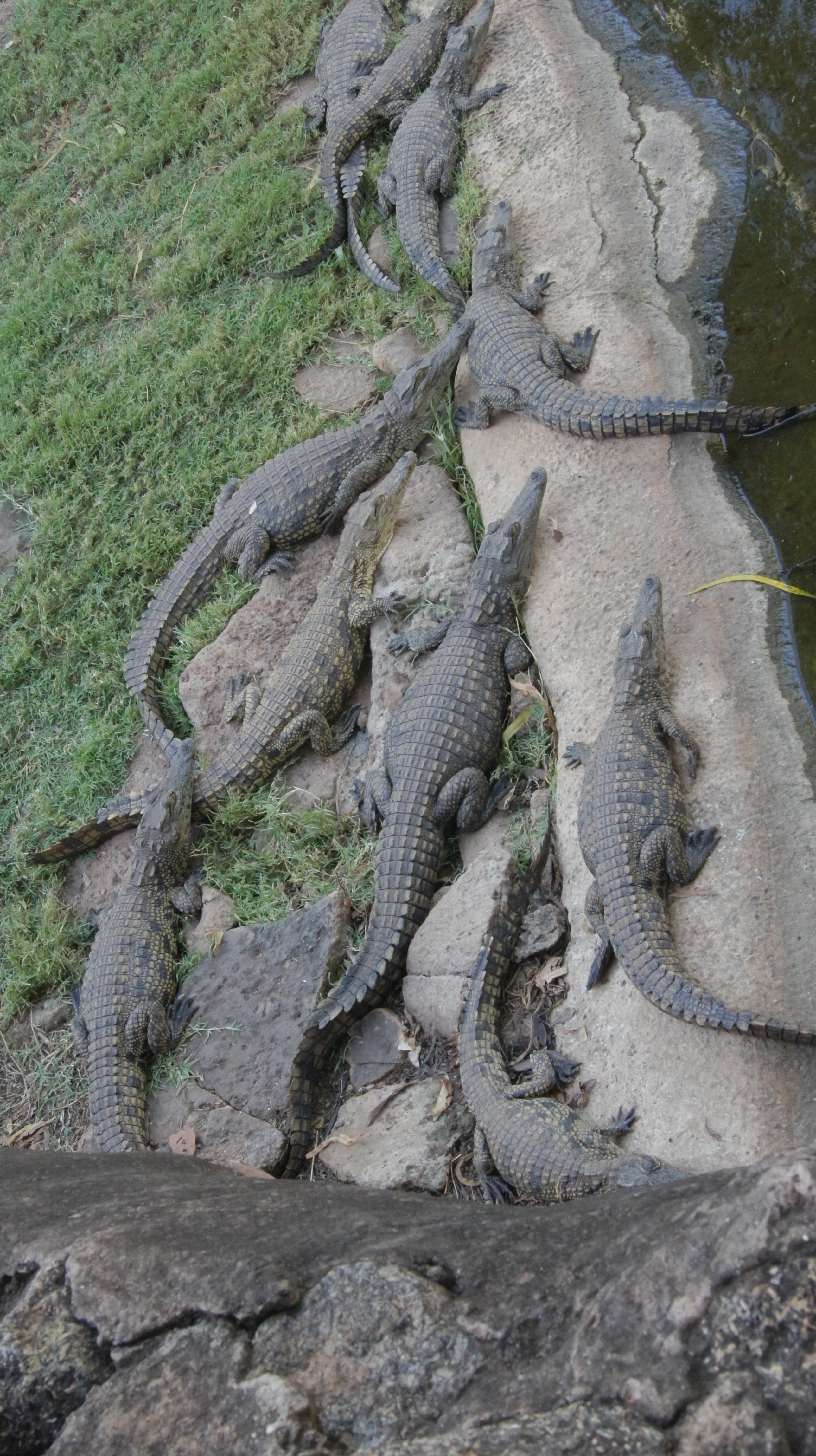 A group of young crocodiles gathered near a pool inside a Sanctuary in Sun City north west of South Africa.